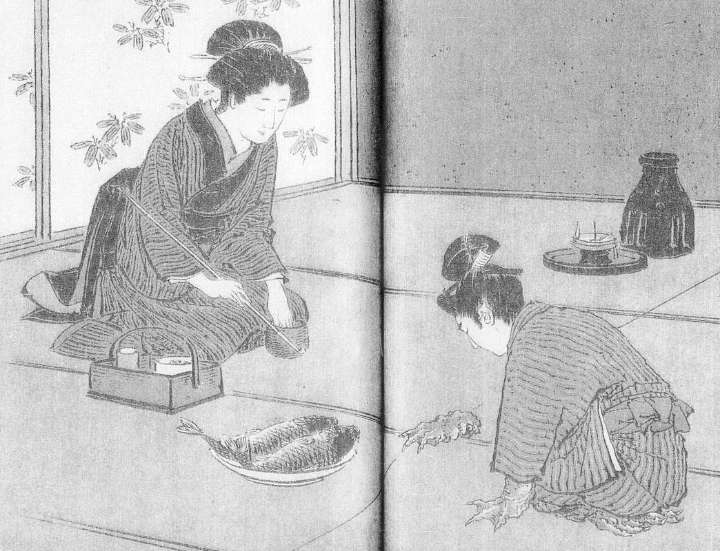 Kappa (河童, a famous water monster with a water-filled head and a love of cucumbers) from the "Yasōkidan" (夜窓鬼談, Japanese book)